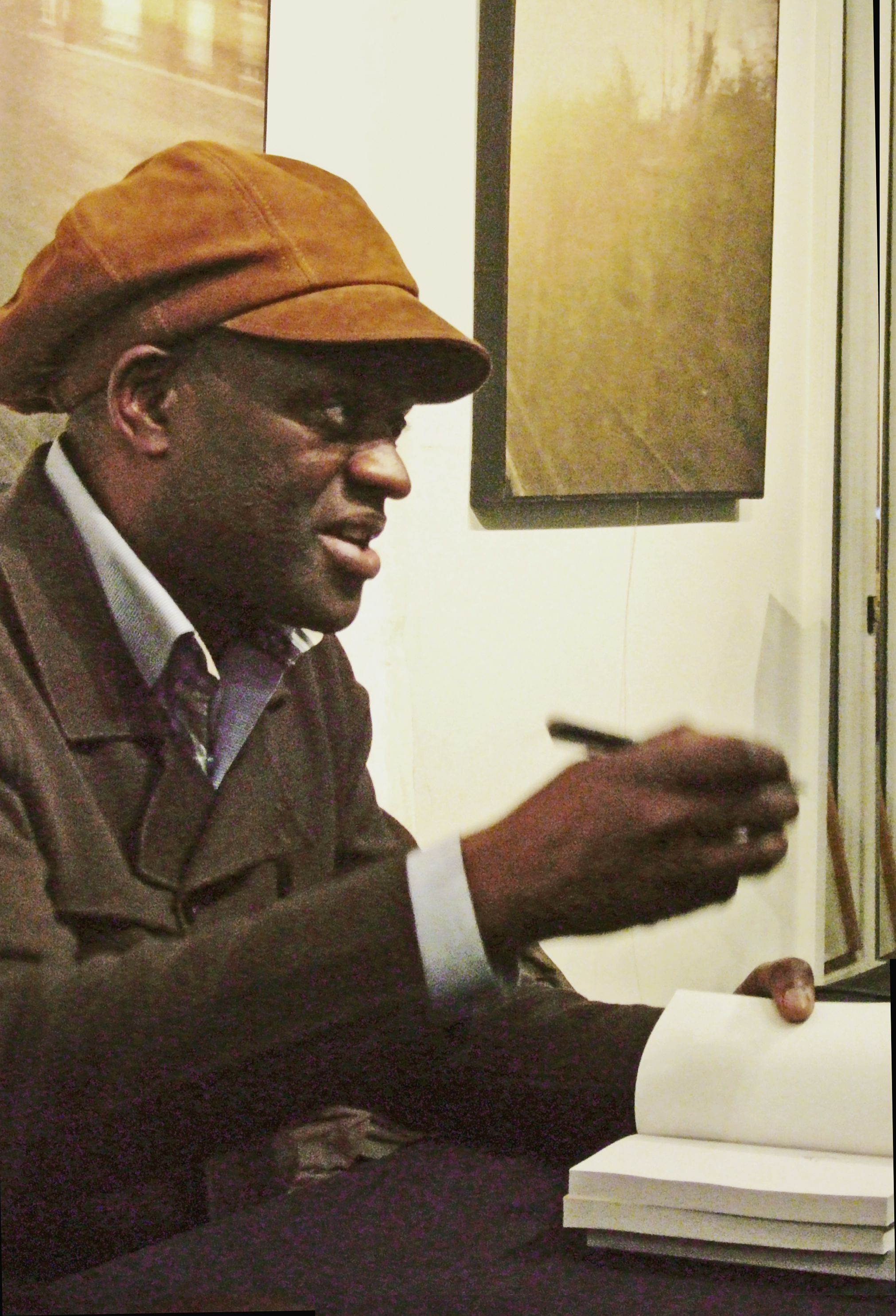 Alain Mabanckou